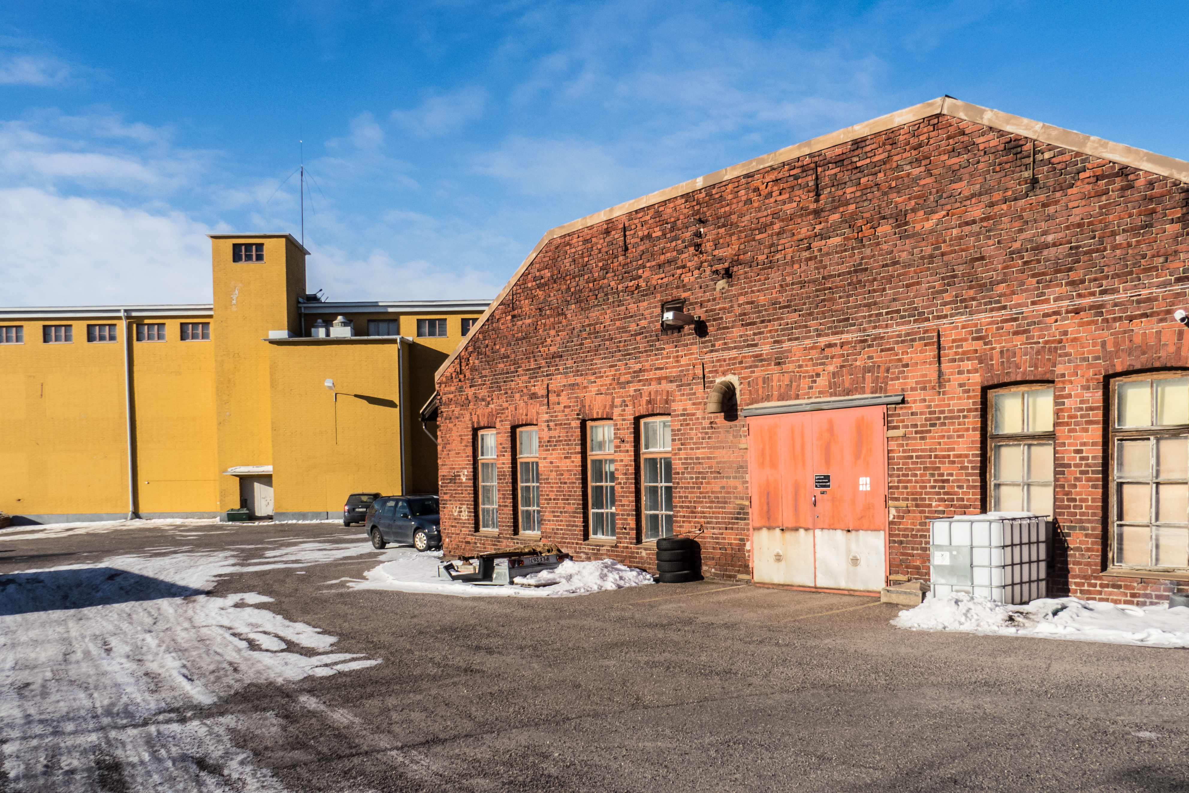 Turku Museum Centre administration, storage facilities and workshops located on Kalastajankatu in IX district, in a former brush factory (Yhtyneet Harja- ja Sivellintehtaat)